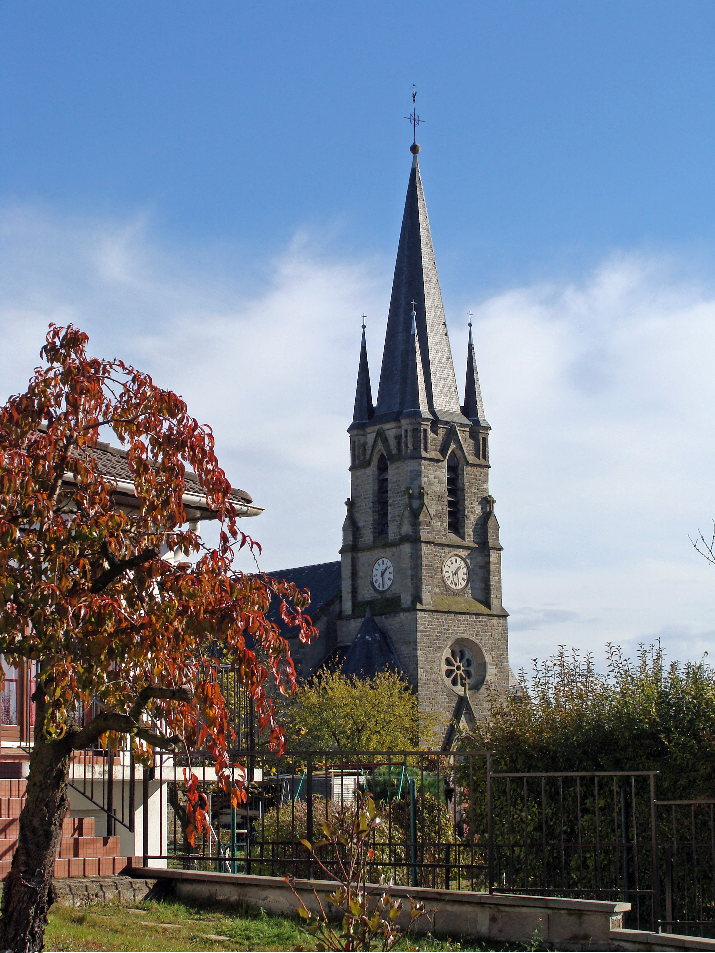 Church of L'Hôpital (Moselle) France